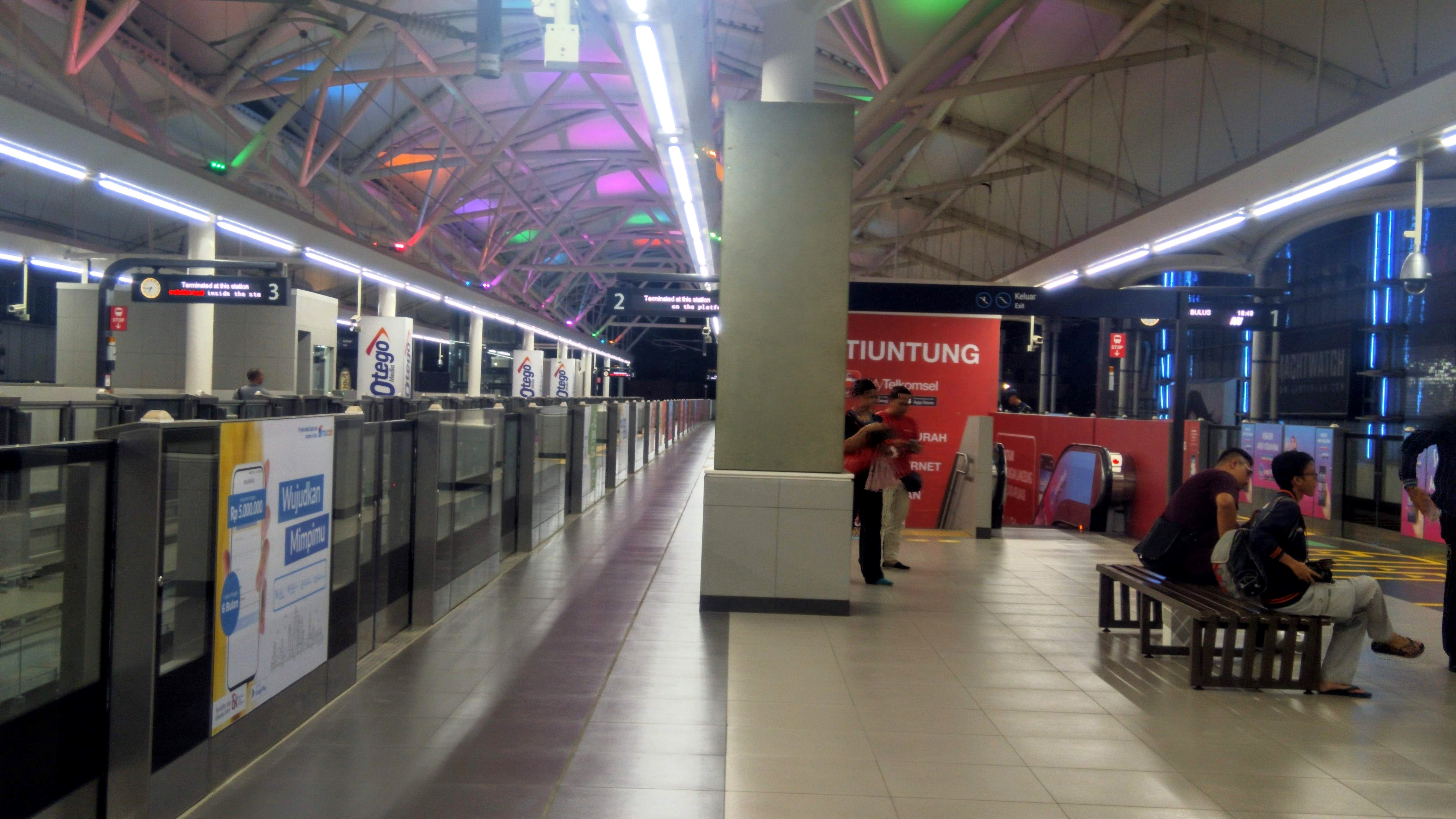 In the Blok M MRT Station